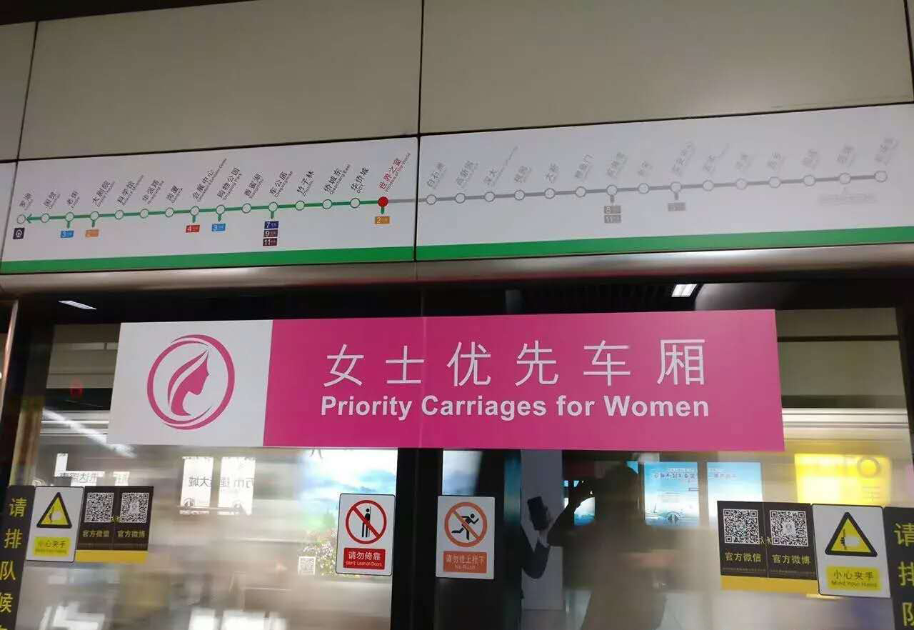 A sign of Priority Carriages for Women in Window of the World Station, Line 1 (Luobao Line), Shenzhen Metro since Jun. 26th., 2017. 粵語: 喺深圳地鐵1號綫（羅寶綫）世界之窗站，從2017年6月26號開始整咗女士優先車廂啲嘢。